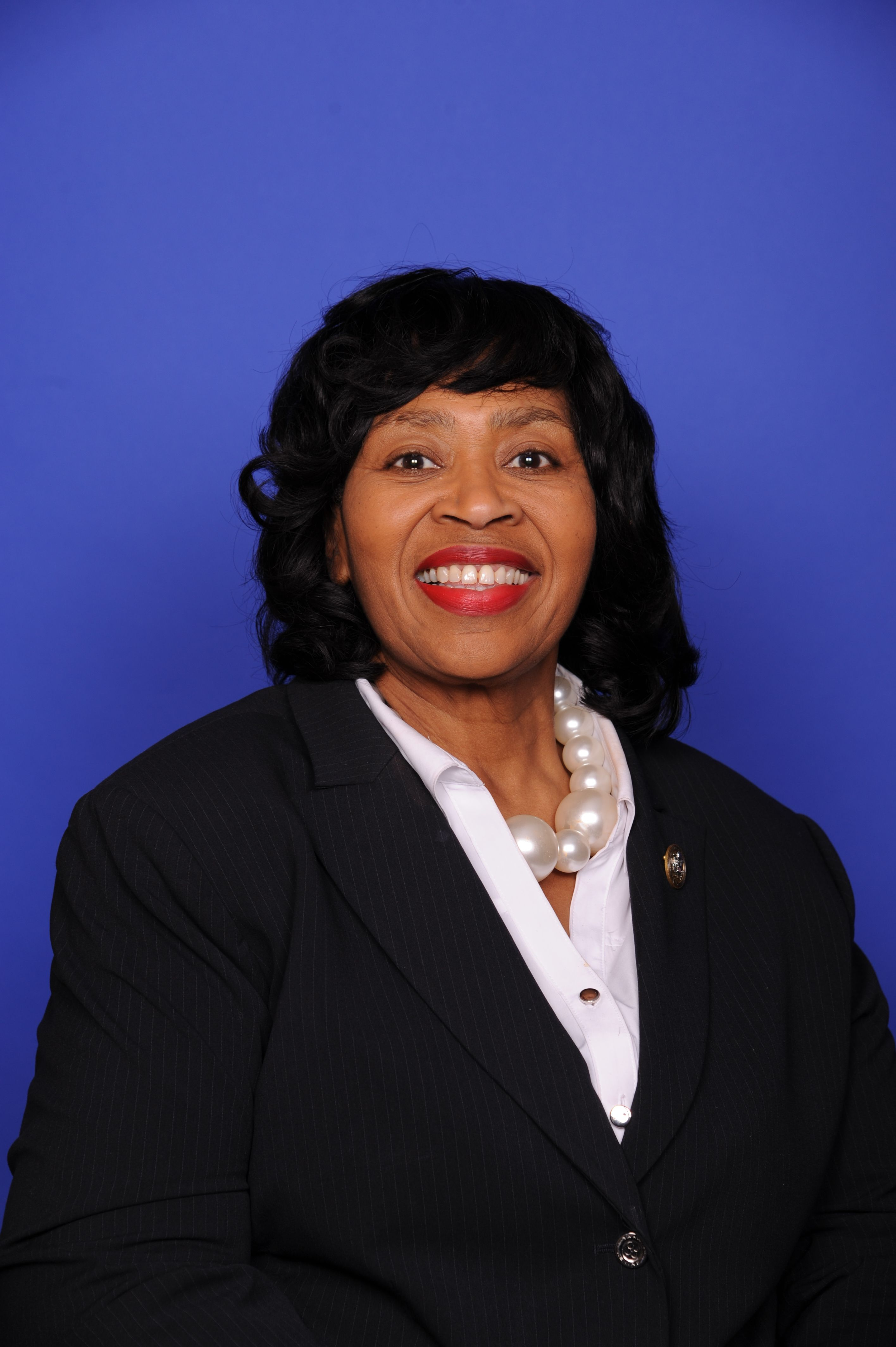 Official Congressional Photo Rep. Brenda Jones